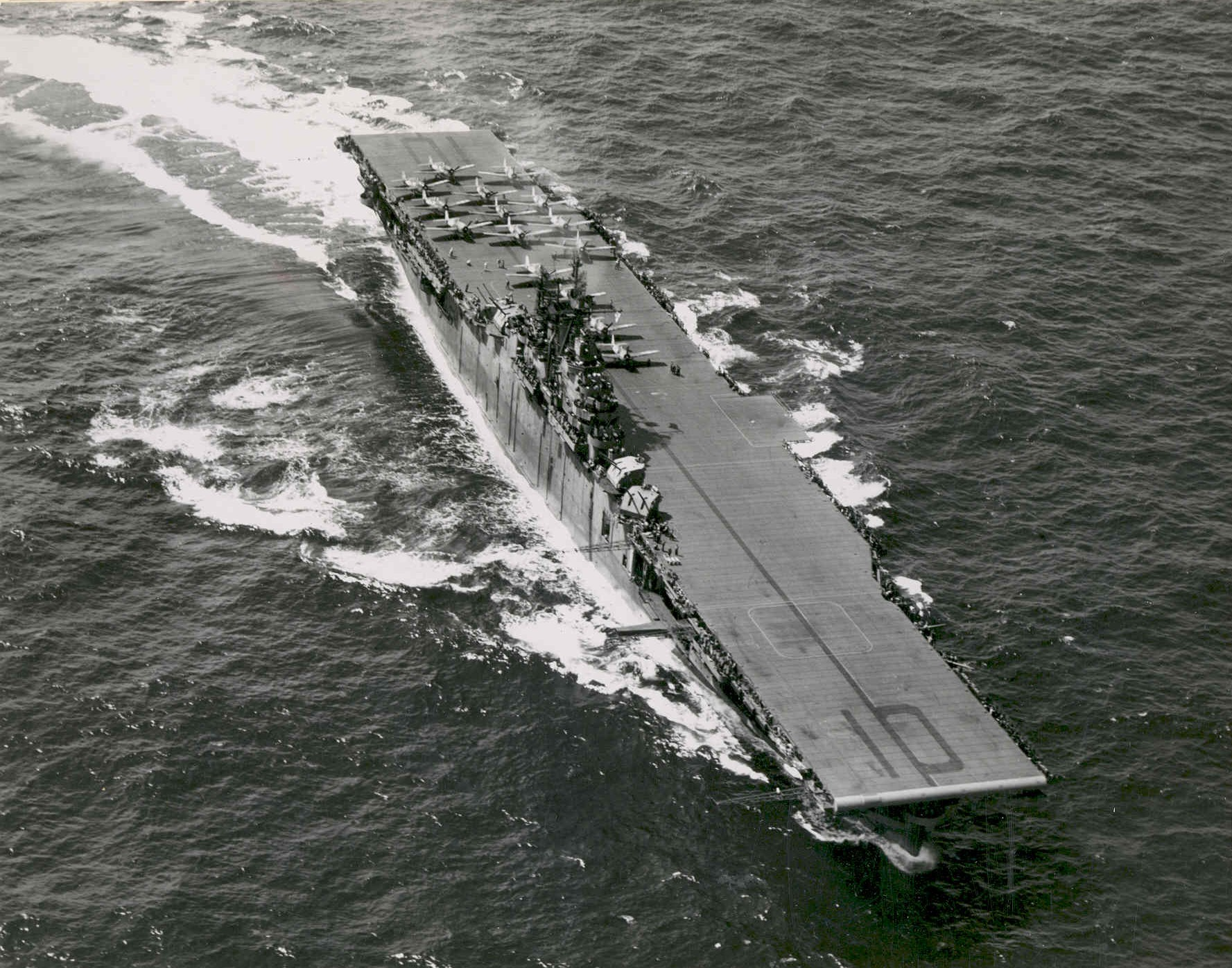 The U.S. Navy aircraft carrier USS Yorktown (CV-10) in 1943. Note that the forward hull number on the flight deck is turned around, so that it was readable for aircraft approaching from the bow. 15 Grumman F6F-3 Hellcat fighers of fighting squadron VF-5 are visible on deck. Note the extended hangar catapult on the starboard side forward of the gun turrets.